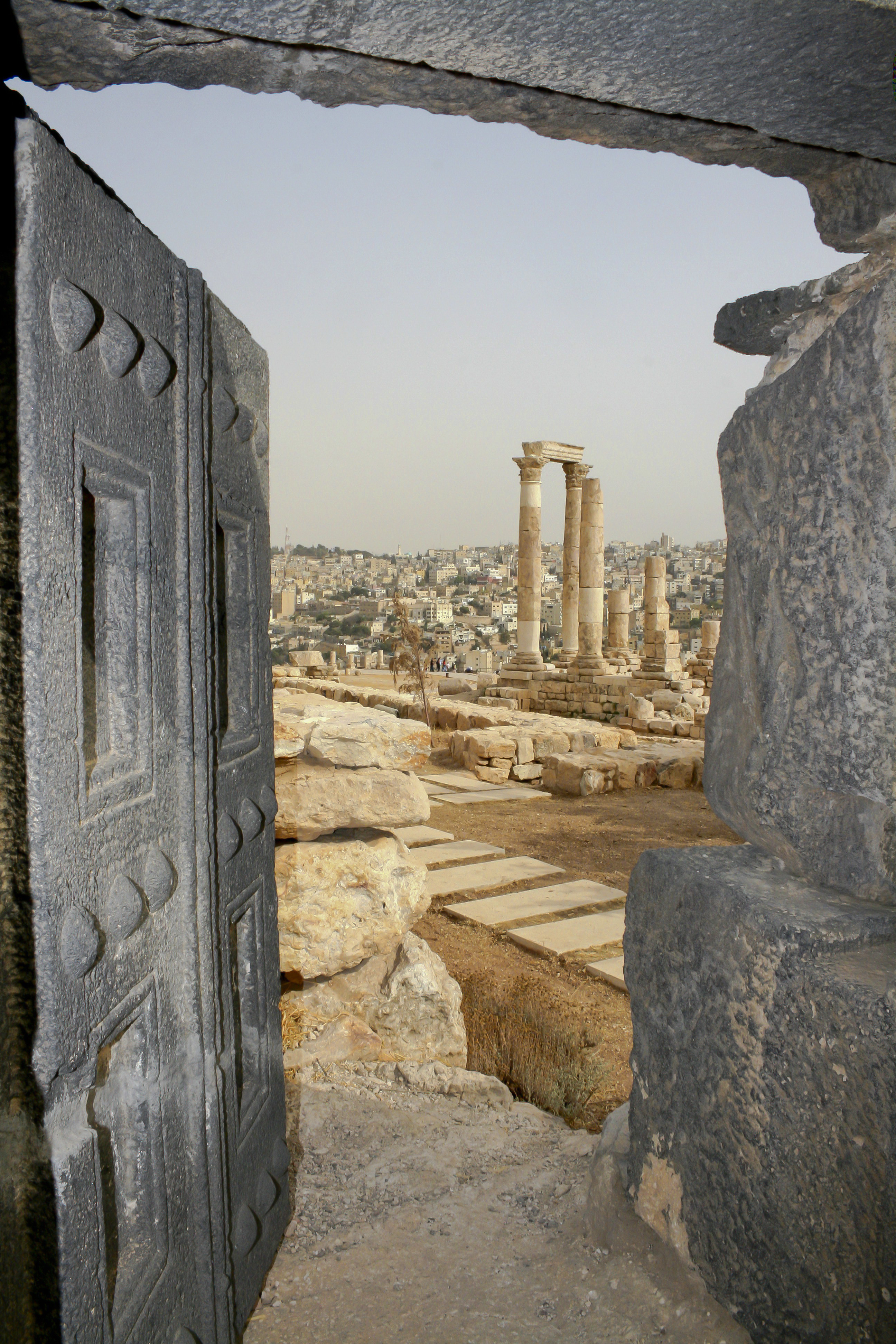 Temple of Hercules, Amman, Jordan